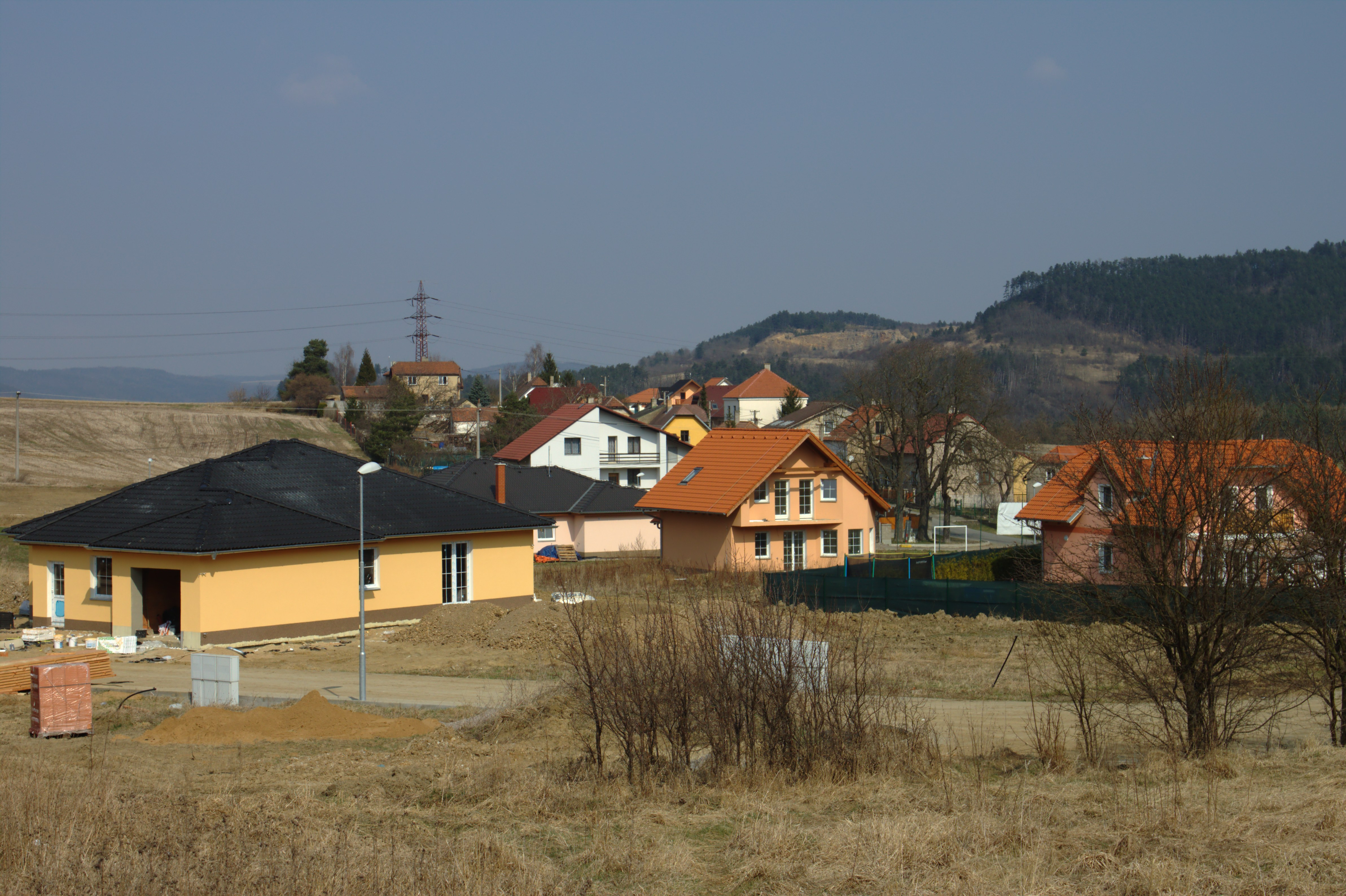 New housing in Králův Dvůr-Křižatky, Central Bohemian Region, CZ